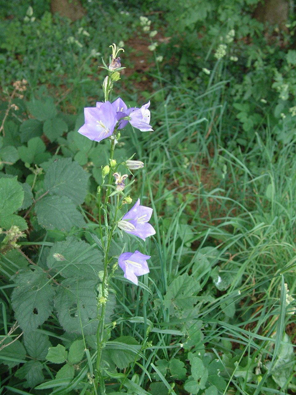 Flowering Campanula persicifolia. In the background Dactylis glomerata s.l. Morvan, France June 2005.